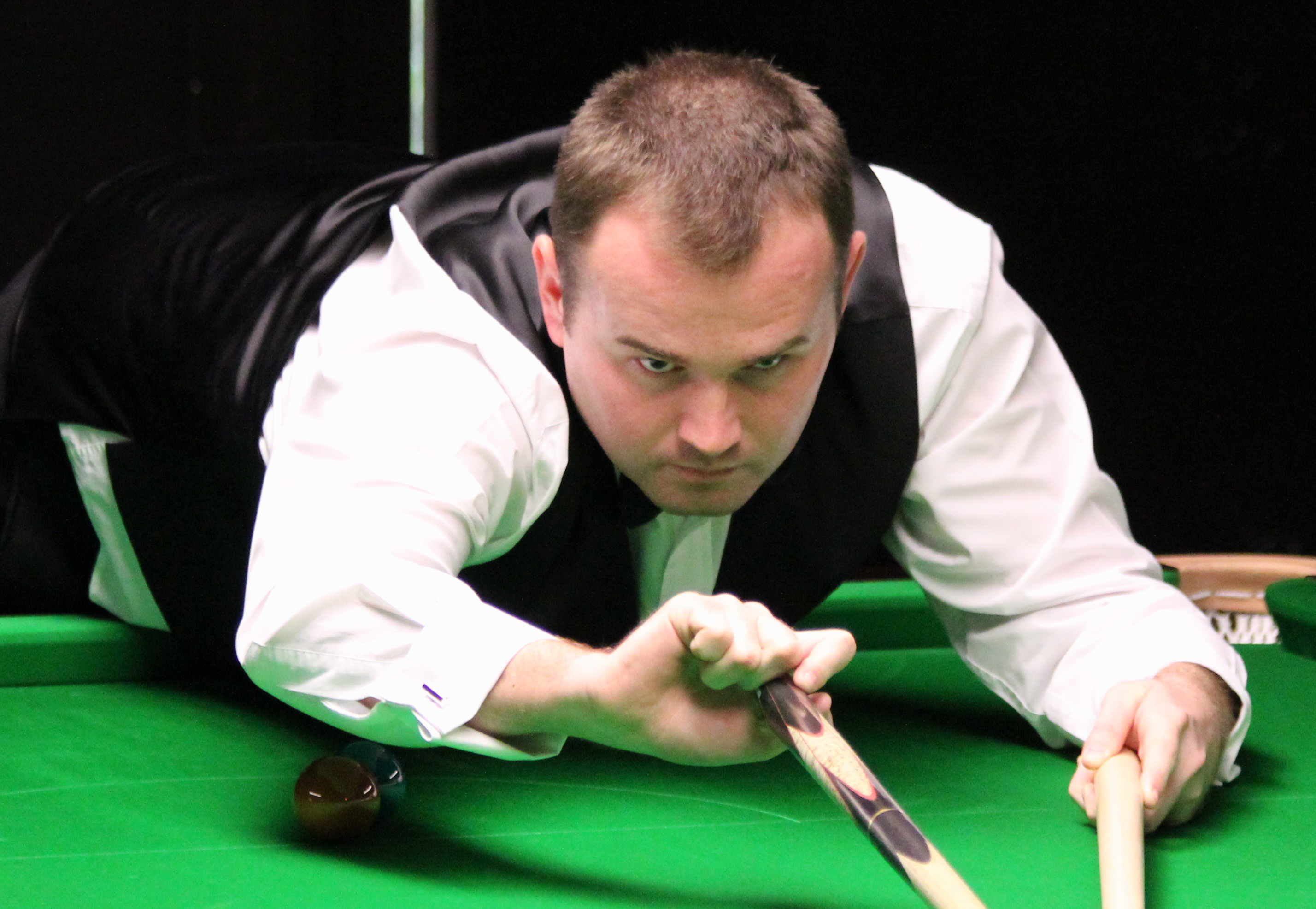 Mark Joyce beim Paul Hunter Classic 2012